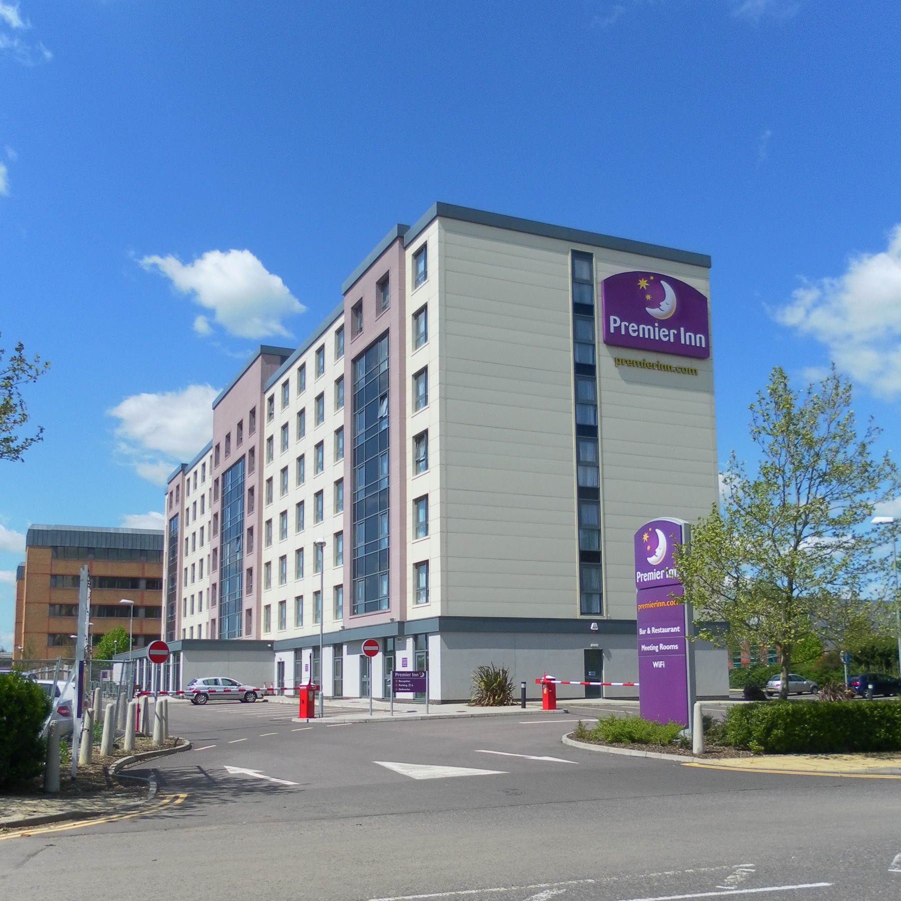 Premier Inn, Manor Royal, Crawley, West Sussex, England.